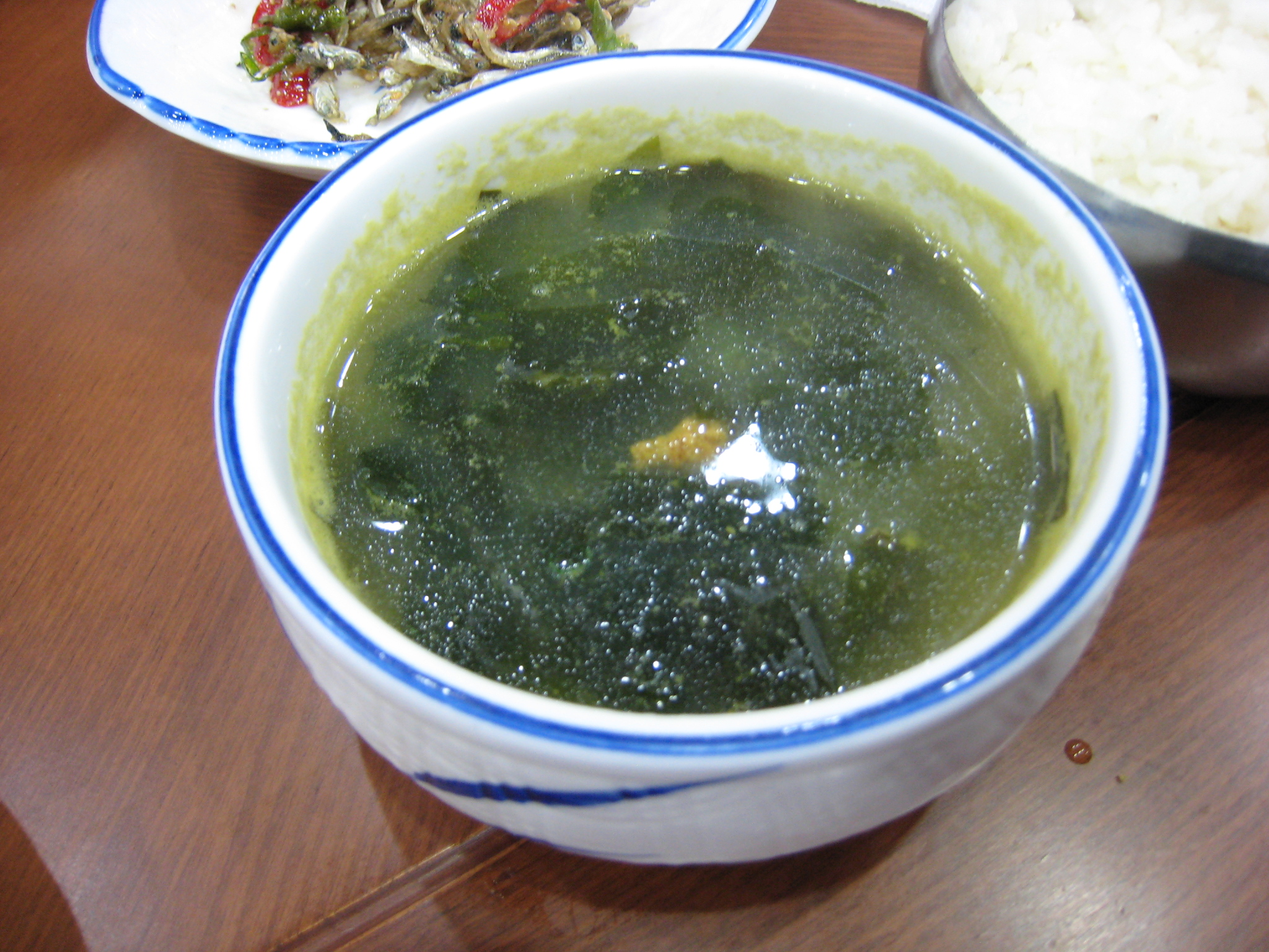 seaweed w/ sea urchin soup.